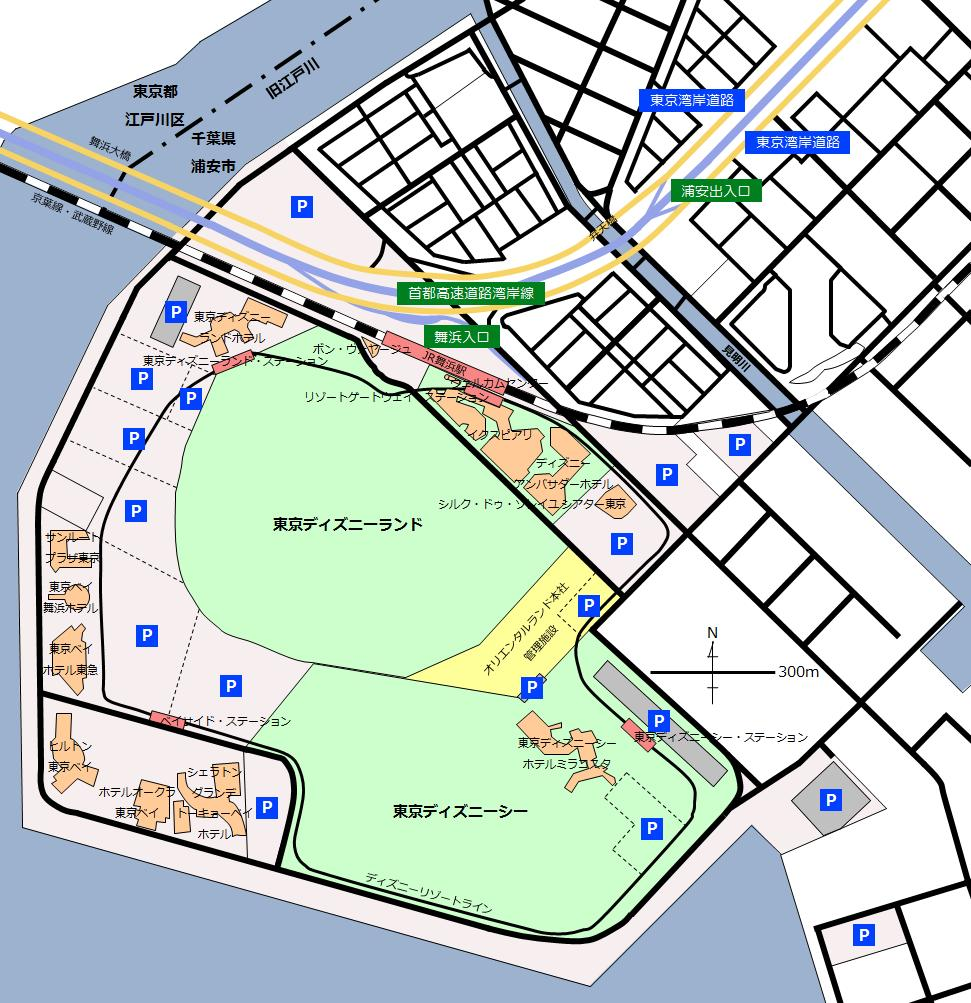 The map of Tokyo Disney Resort (Japanese language)